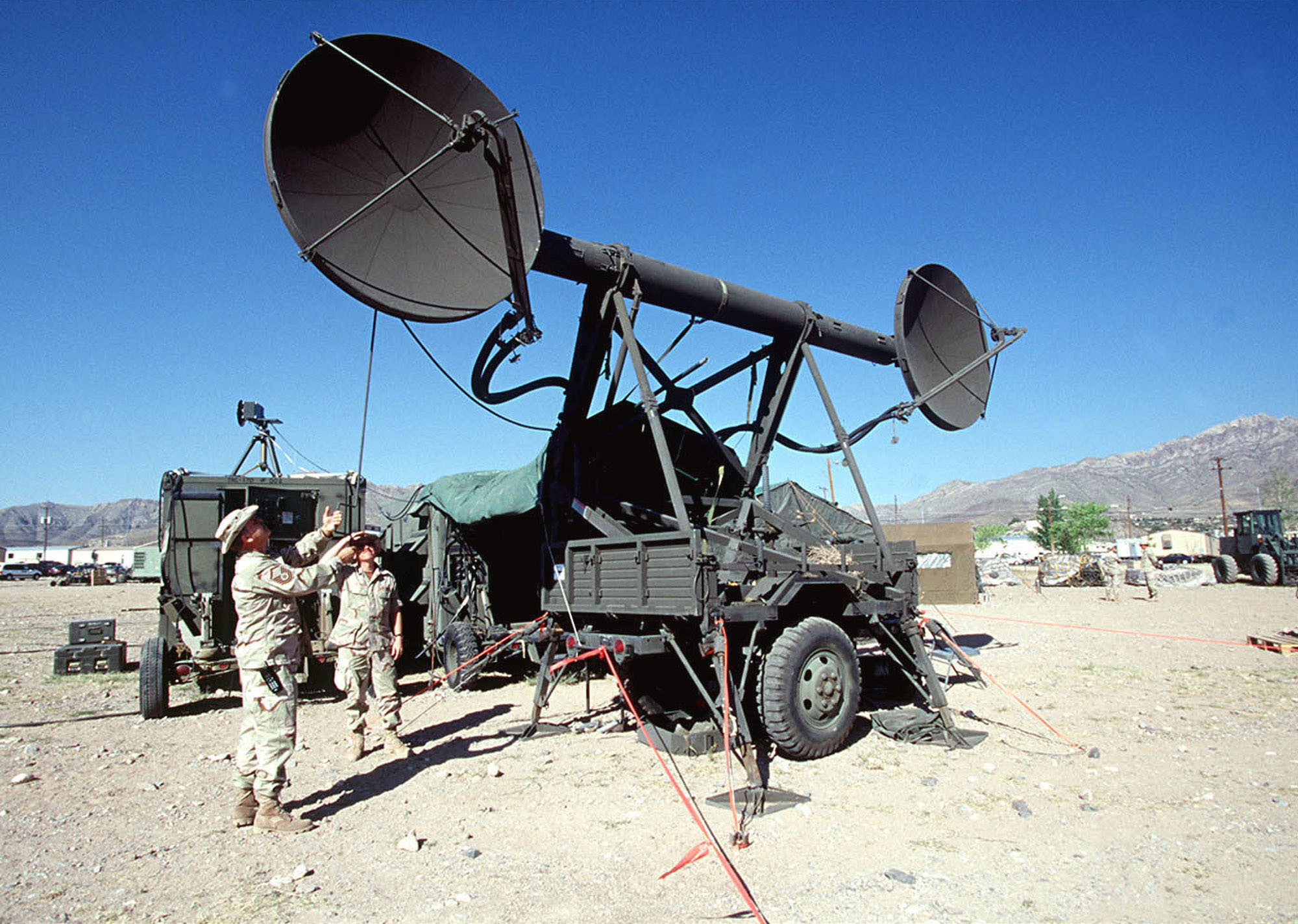 A U.S. Air Force Airmen assigned to the 225th Combat Communications Squadron, Martin Air National Guard Station, Gadson, Alabama (USA), adjust the angle of the dish on a AN/TRC-170 Wideband System during exercise "Roving Sands '97".